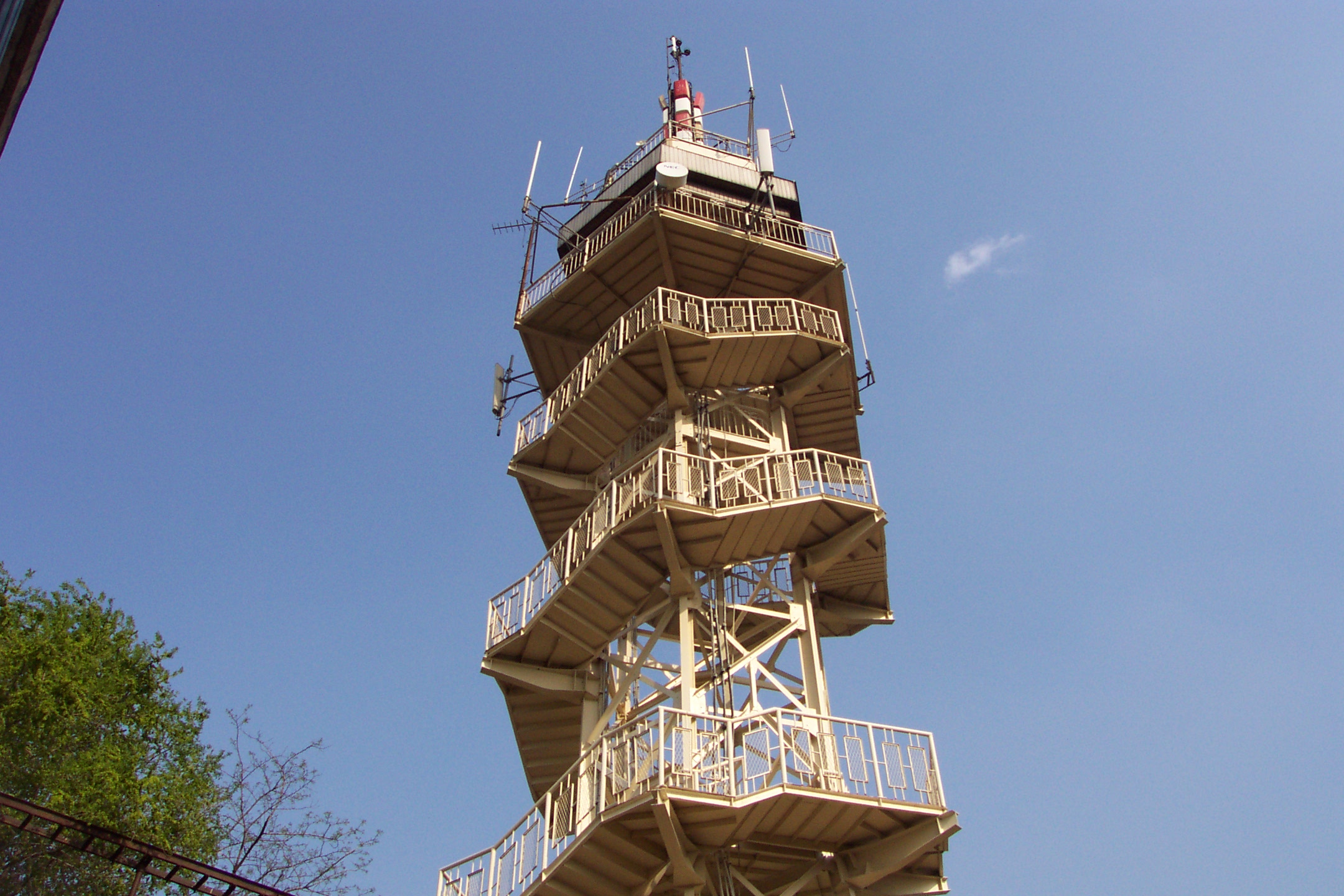 steel tower